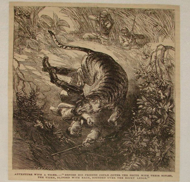 Tiger attack while hunting.